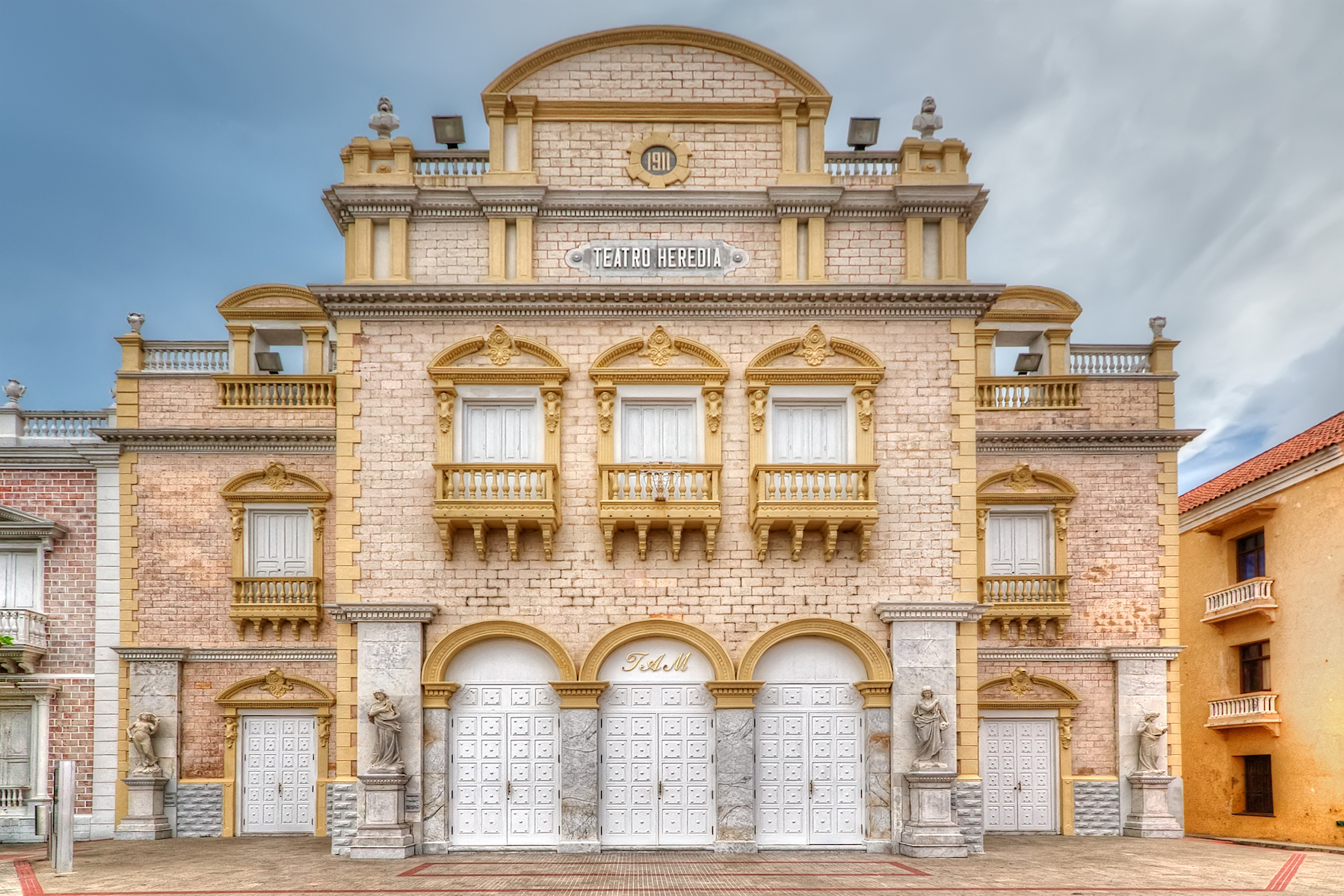 External view of the main facade of Heredia Theater in Cartagena, Colombia.